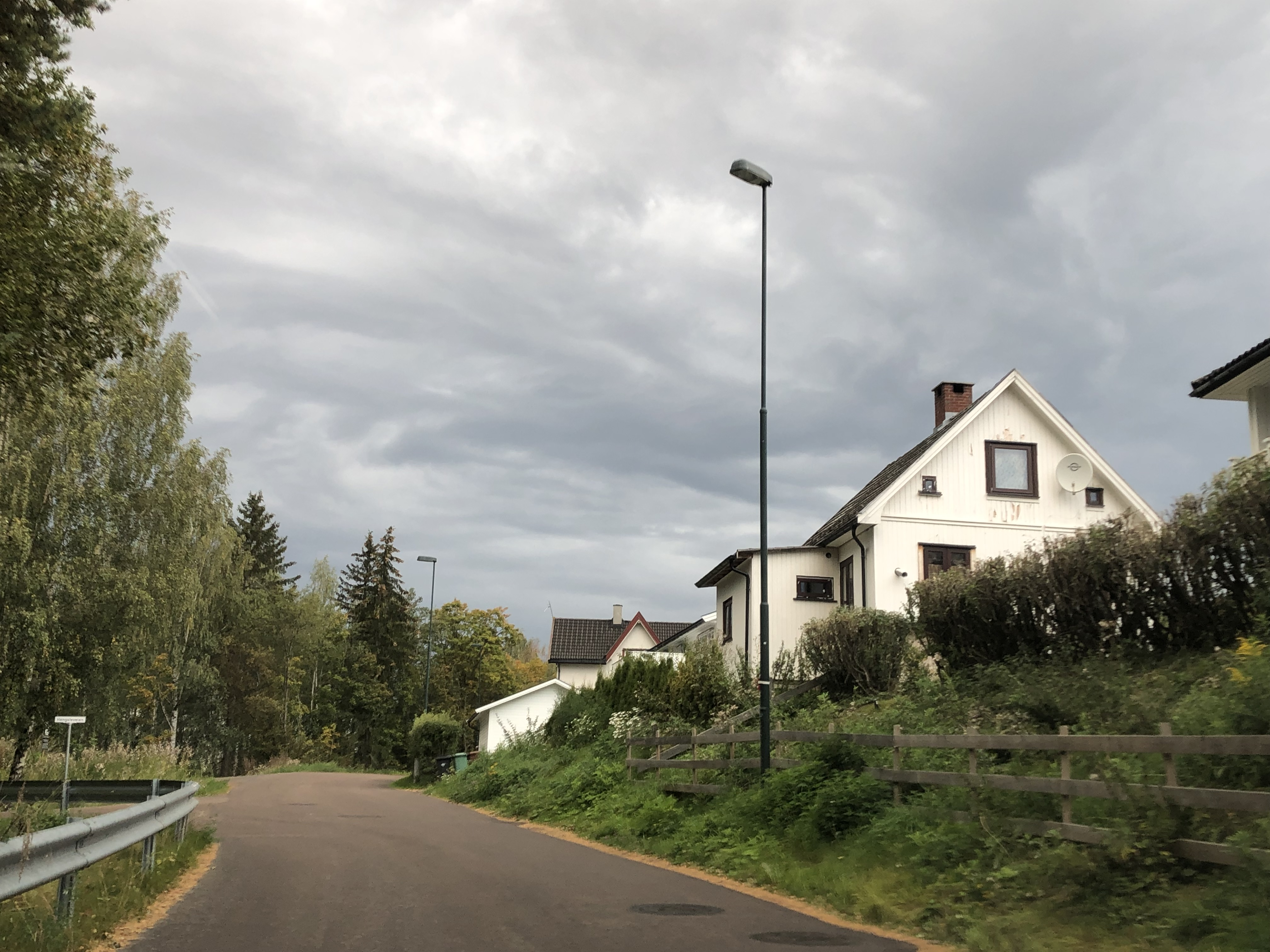 The street 'Rabbaveien', Hønefoss, Norway.